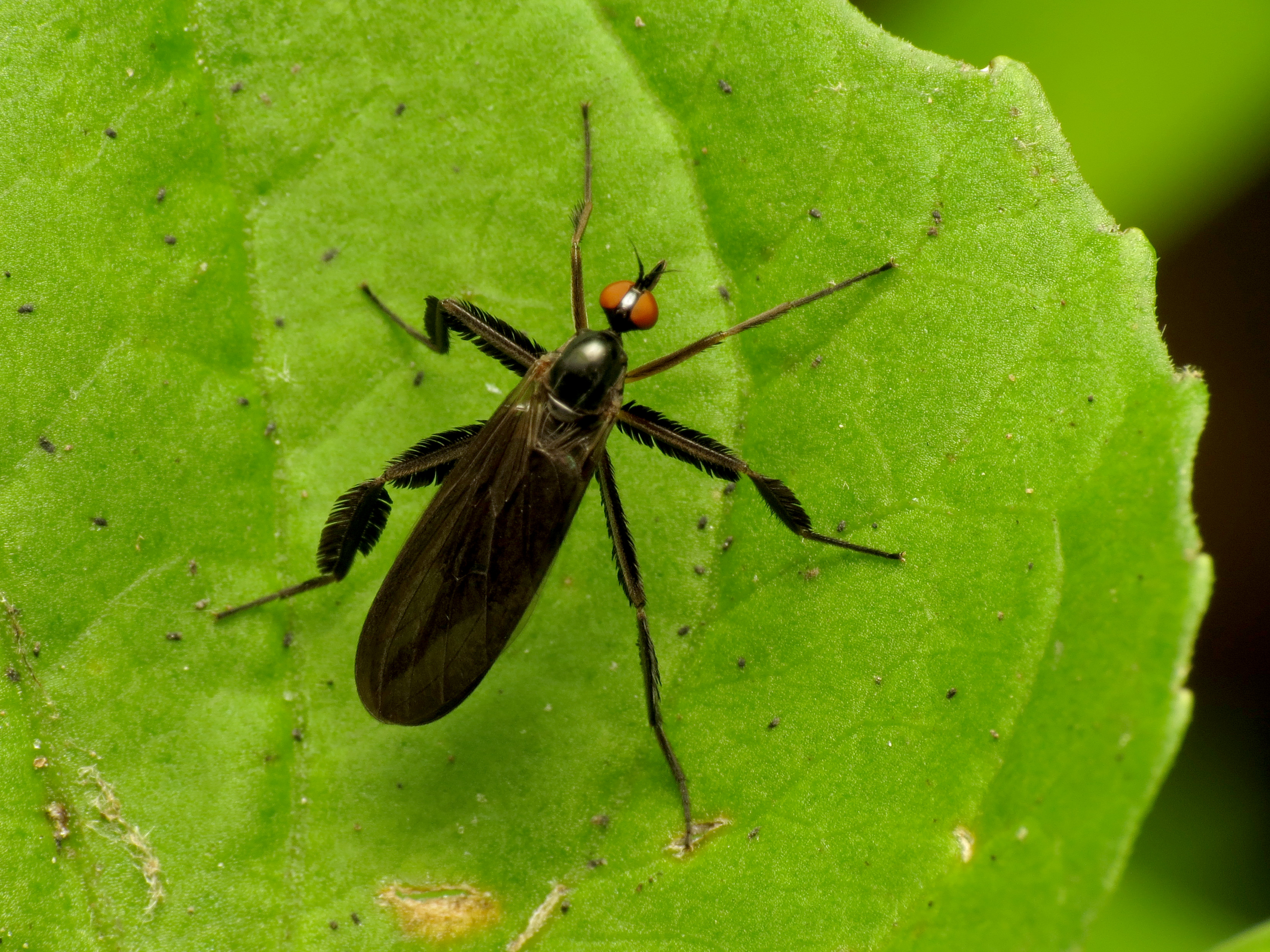 Rhamphomyia longicauda female. Rock Creek Park, Washington, DC, USA. Finally a decent shot of these. They're fast!